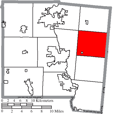 Map of the municipal and township boundaries of Miami County, Ohio, United States, as of the 2000 census, with the location of Lostcreek Township highlighted. Township borders are shown only in unincorporated areas in order to differentiate incorporated and unincorporated areas more clearly.